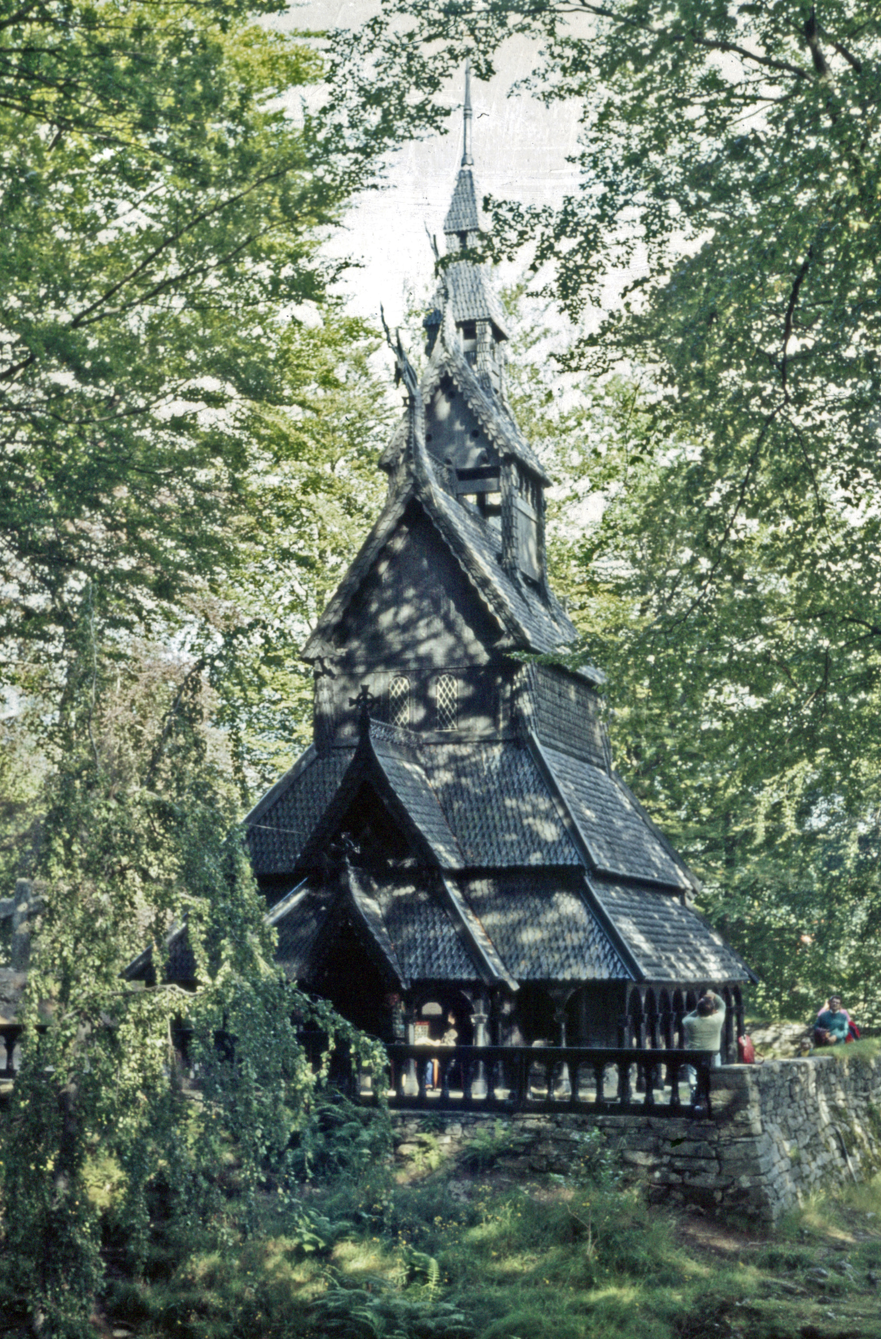 Fantoft stave church in Norway 1975